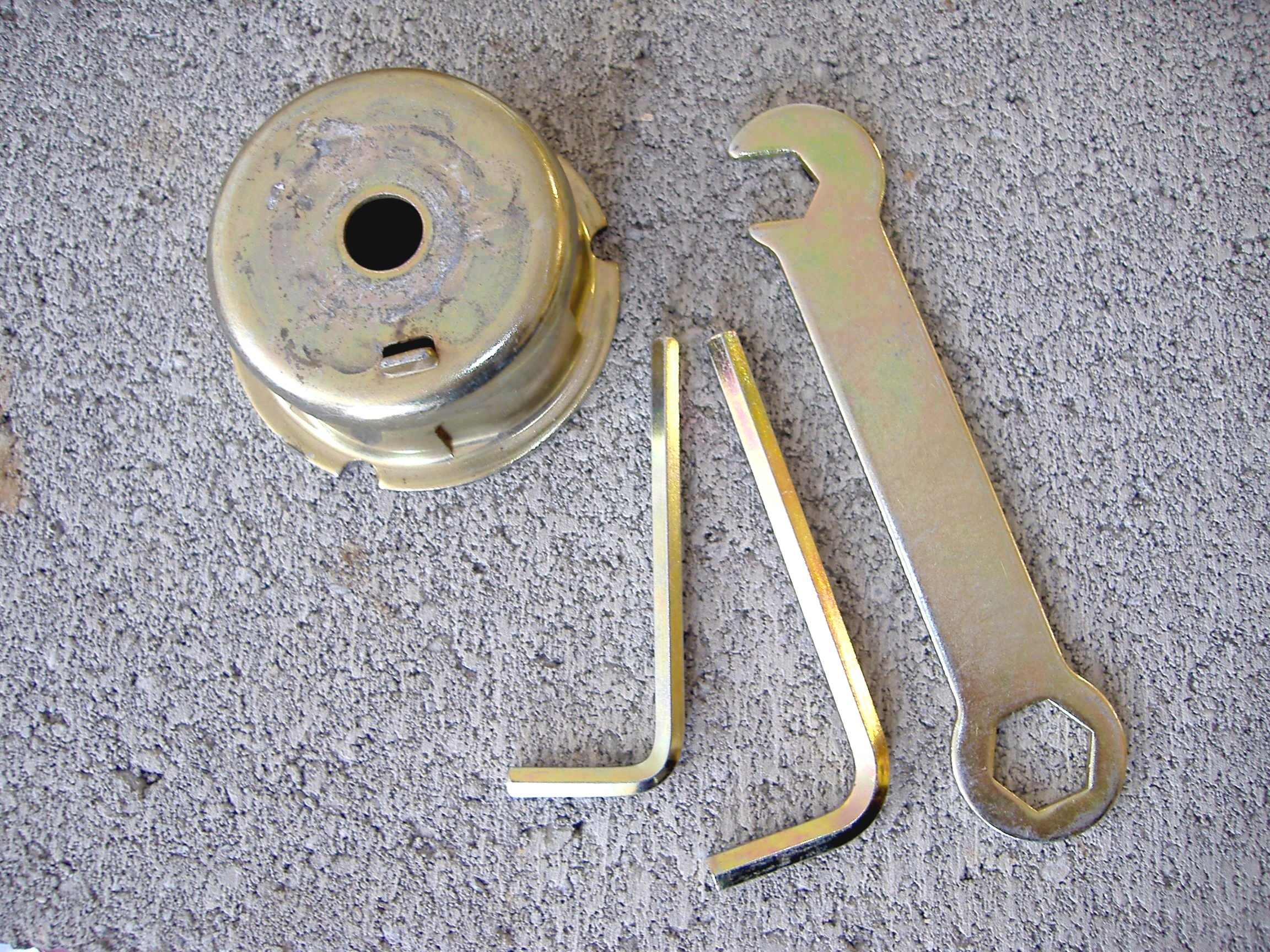 Stampings, steel, zinc chromate conversion coating